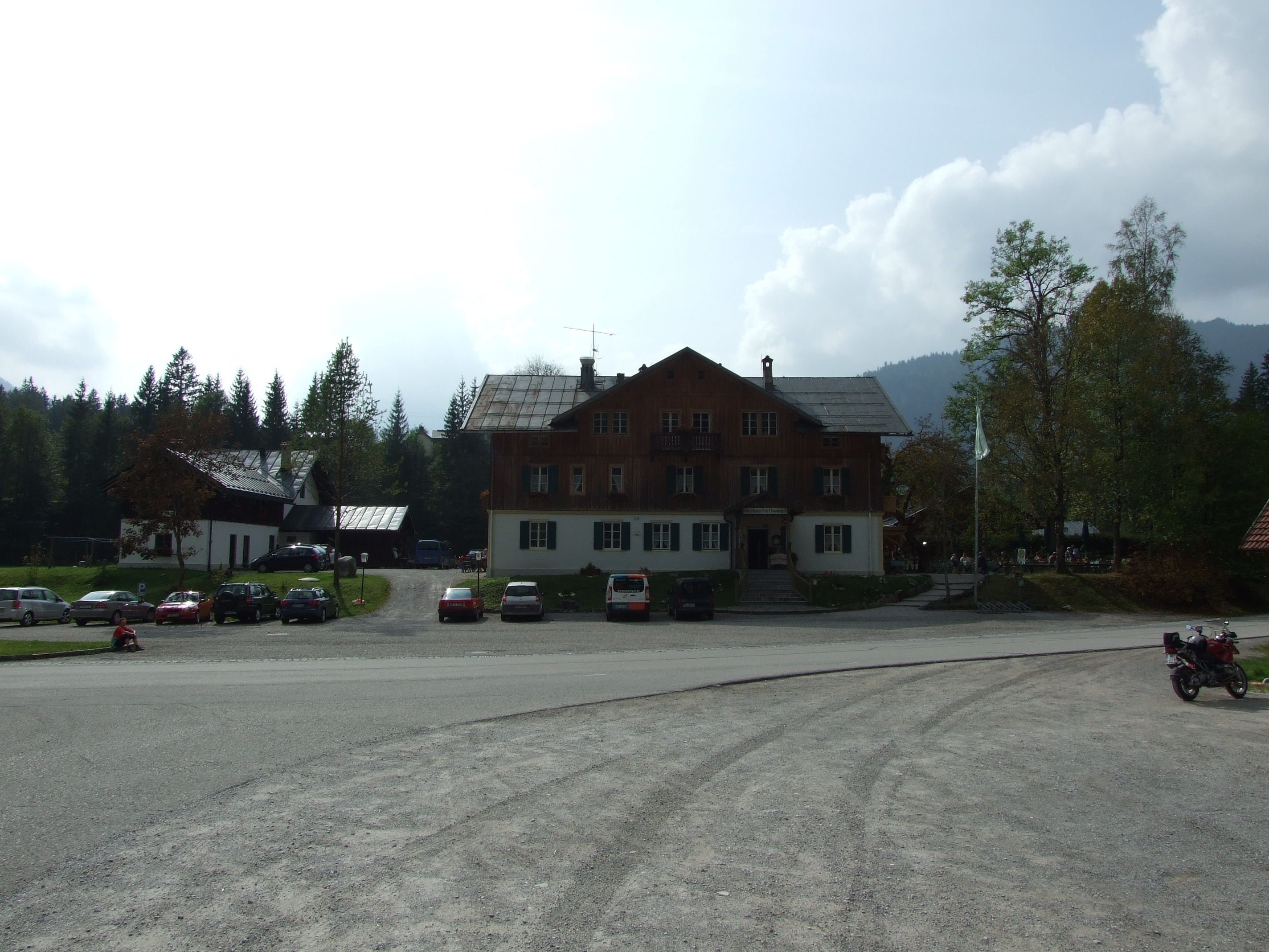 The village Vorderriß in Bavaria. The centre of the small village is seen on the photo with a guesthouse.